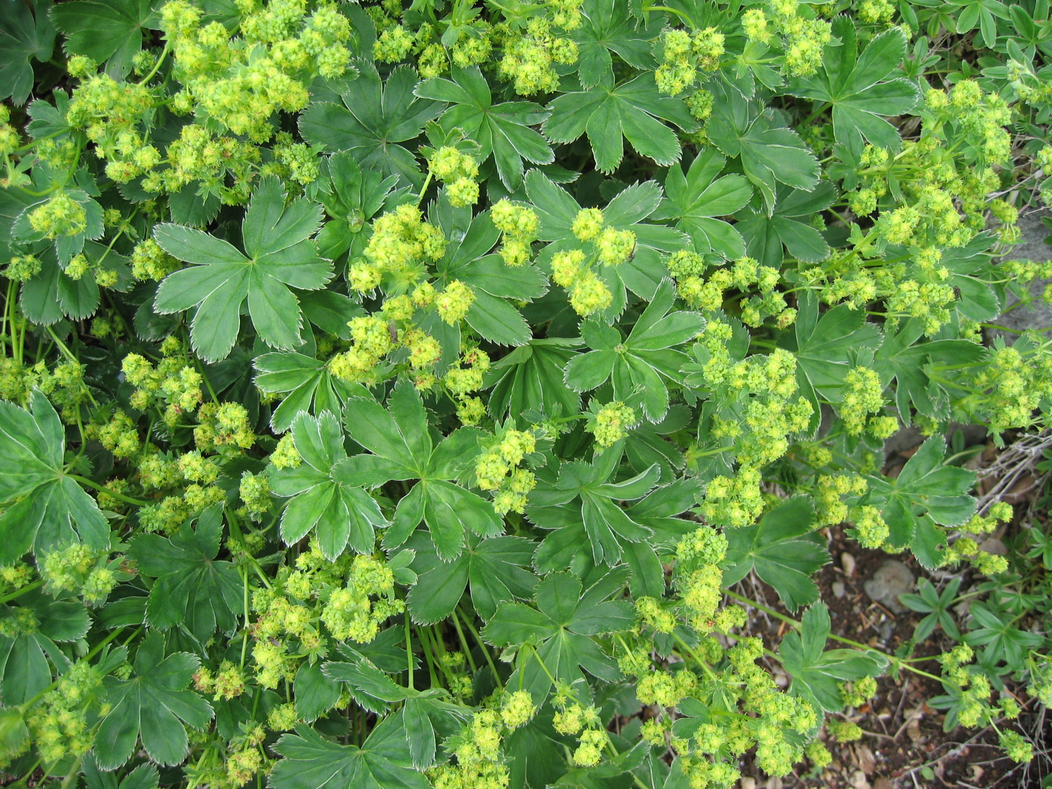 Photo by Salvor taken in the botanical garden in Reykjavik.